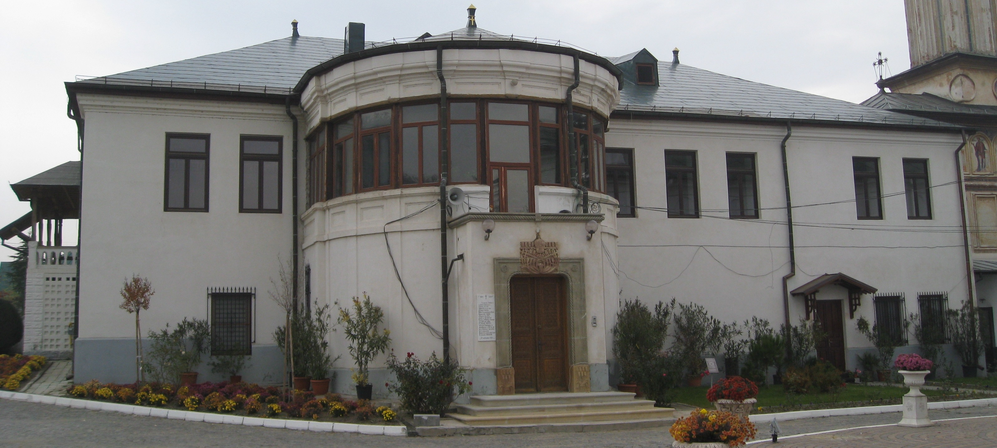 Archbishop's Palace, Râmnicu Vâlcea, Romania 02